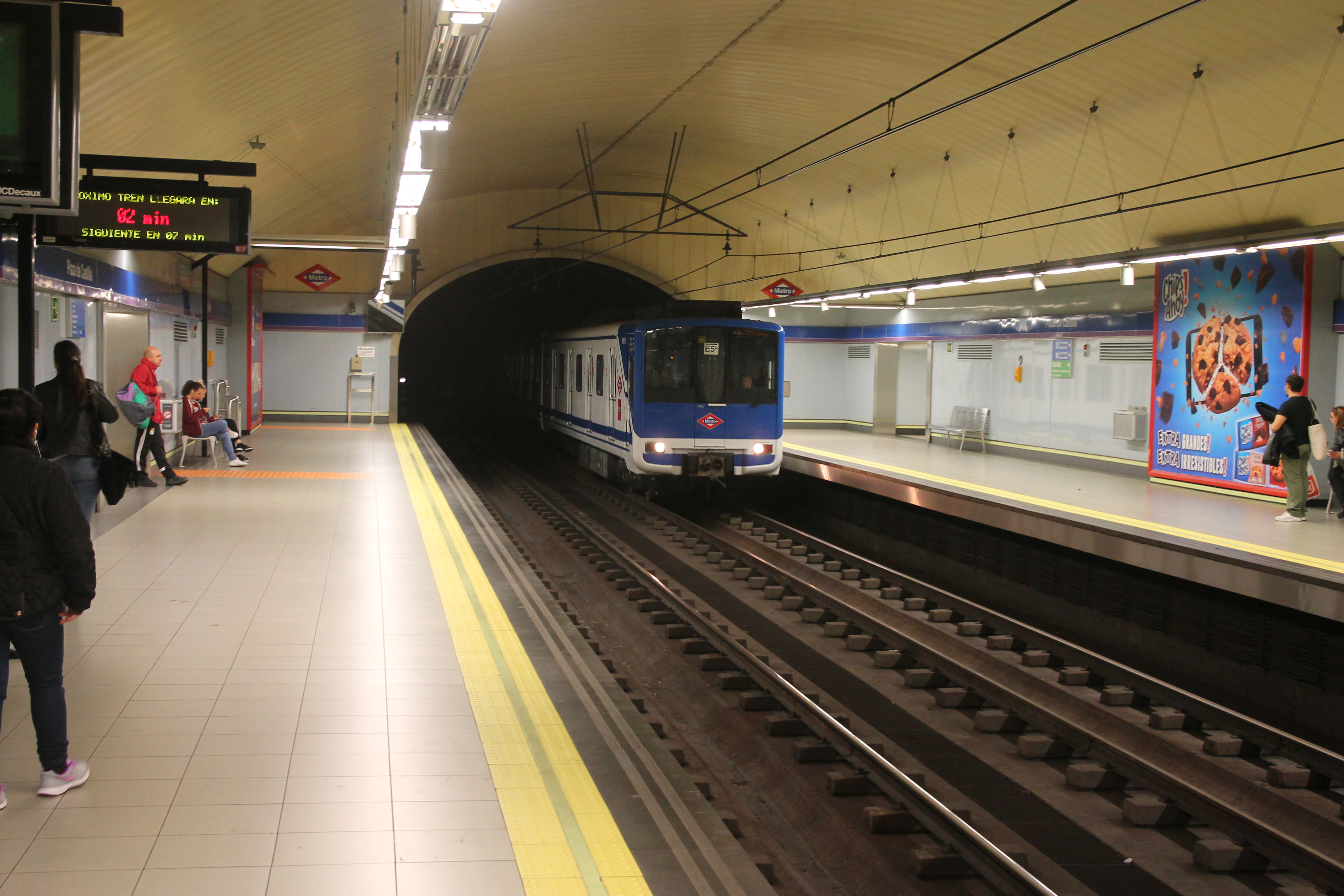 Estación de Plaza de Castilla